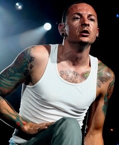 Chester from Linkin Park